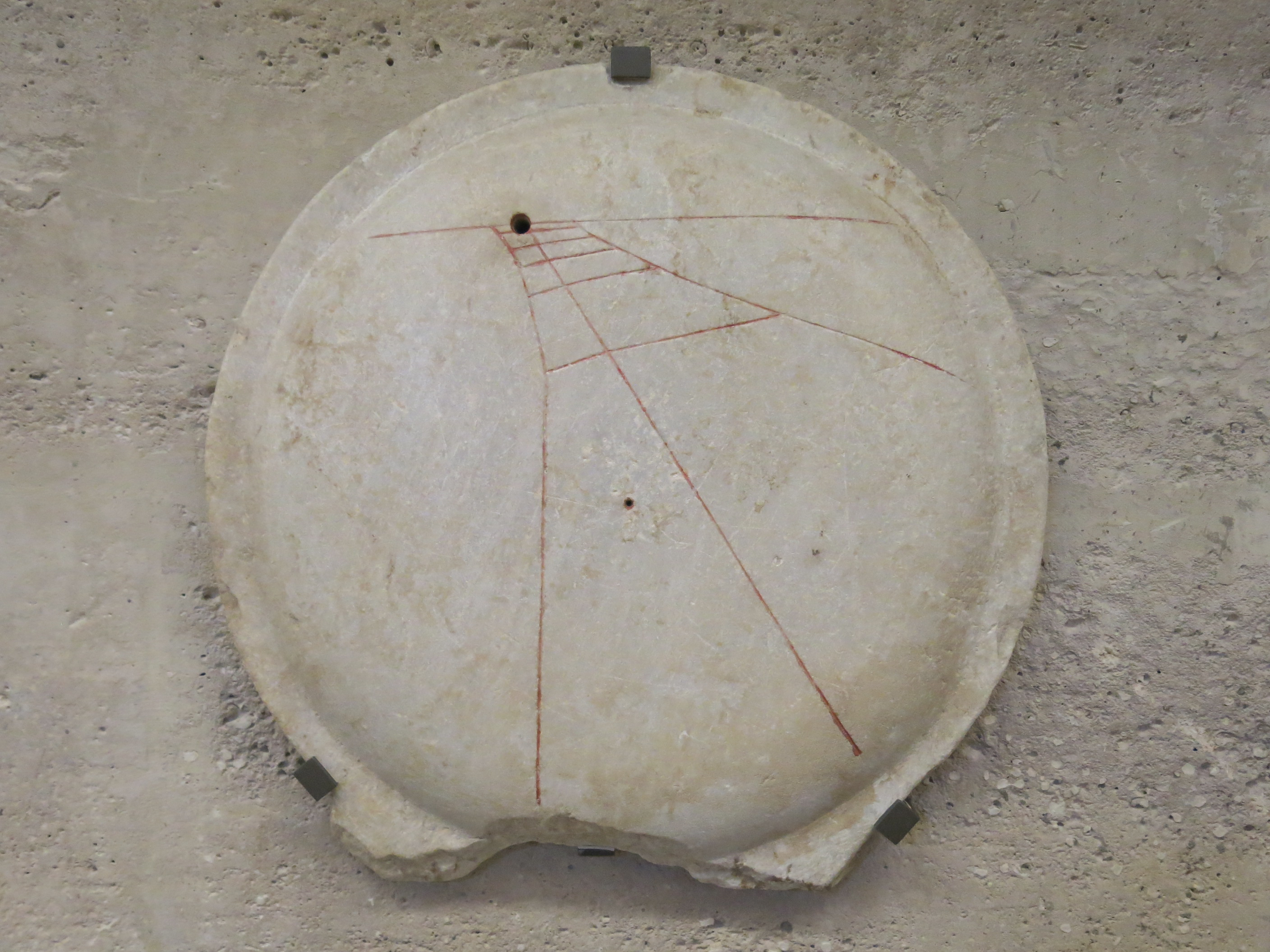 Vertical sundial. Delos, near the temple of Apollo, Greece. Circa 15-75 century BC. Louvre museum (Paris, France).